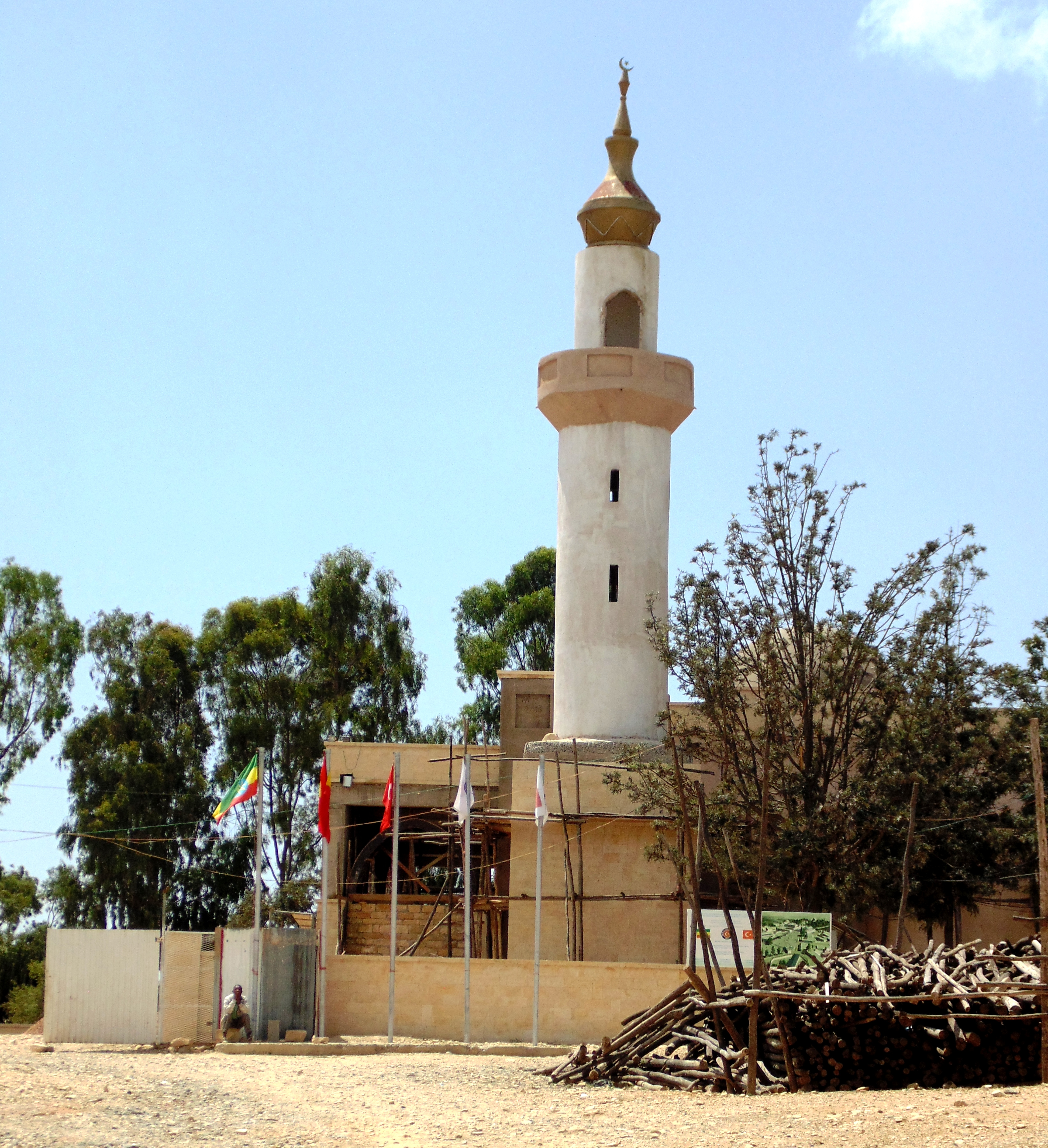 Negash Amedin Mesgid mosque.